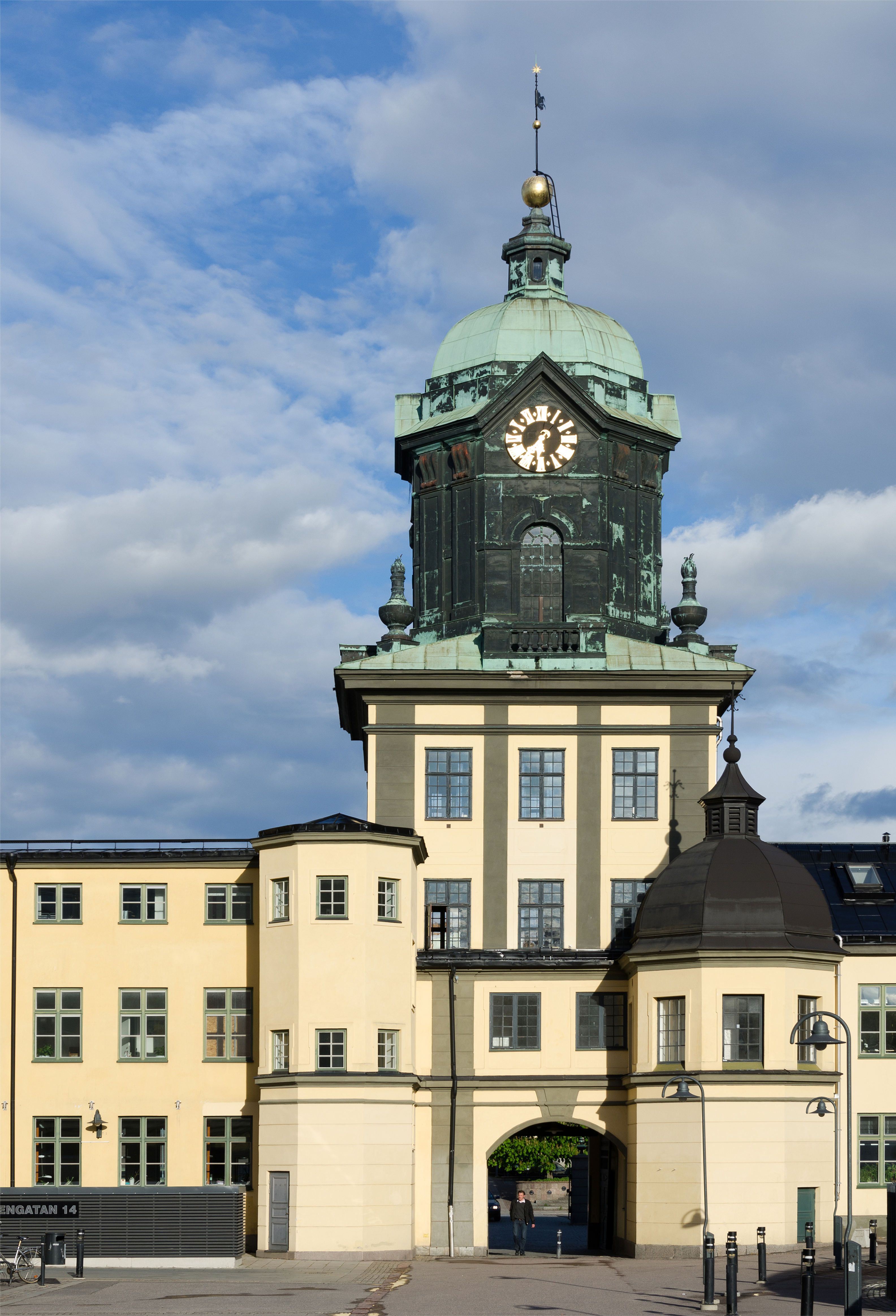 The new Holmen tower (Swedish Holmentornet) Norrköping. The Russians burned down the Holmen mill and a large part of Norrköping 1719. The tower was rebuilt and completed in 1750.